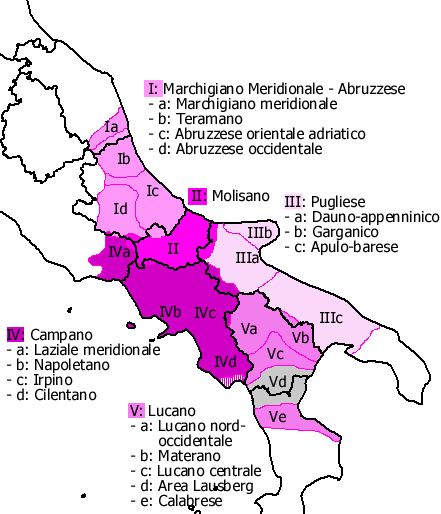 Neapolitan language and dialects by Pellegrini